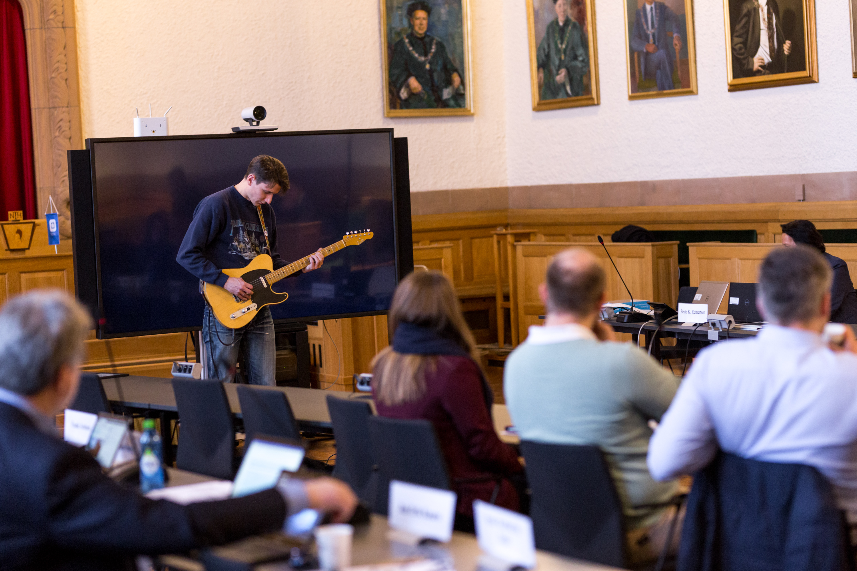 The Norwegian jazz musician Lars Ove Fossheim. Occasion: He received the Trondheim Jazz Festival talent prize 2017. Place: Rådssalen, NTNU, Trondheim, Norway